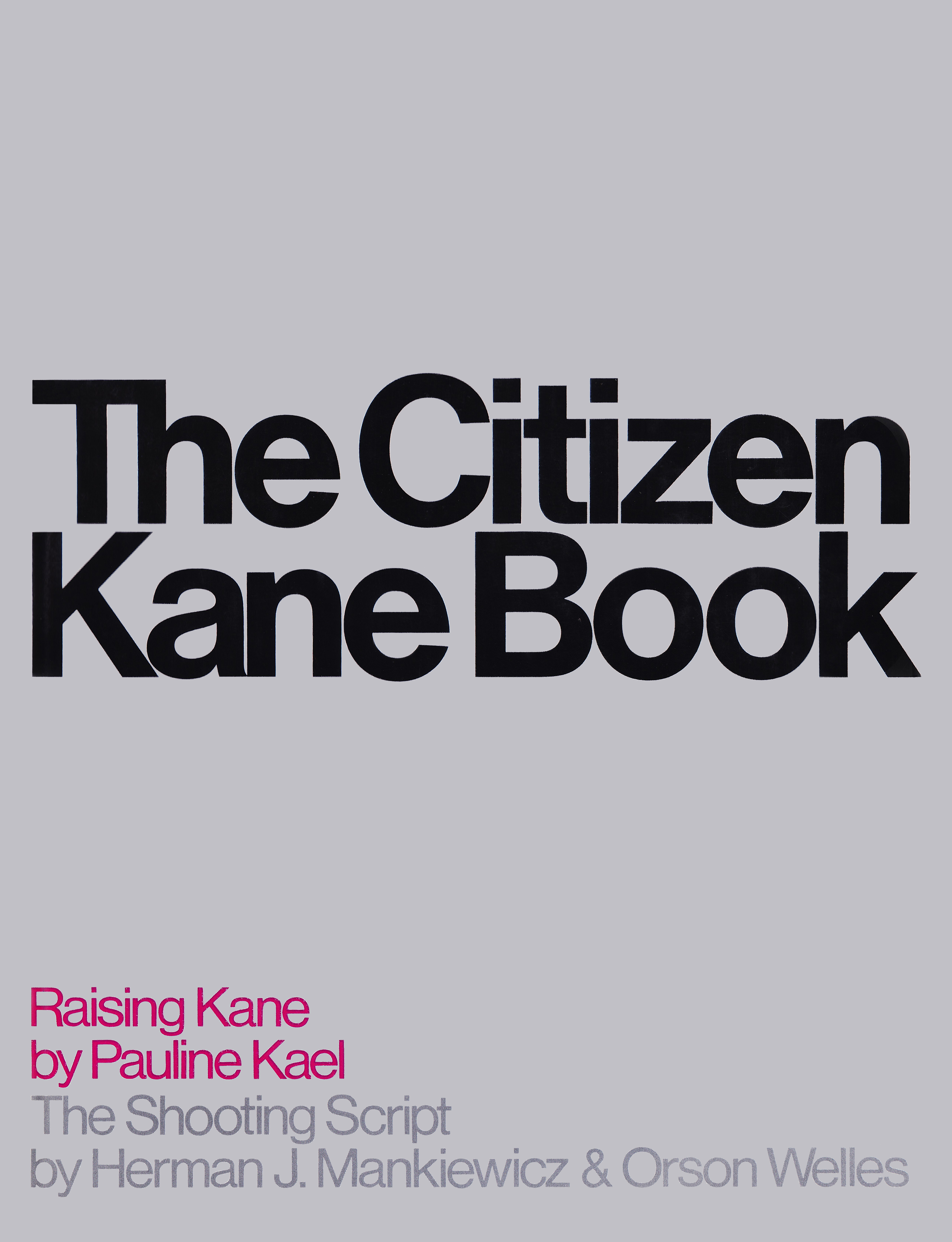 Front cover of the dust jacket for the first edition of The Citizen Kane Book (1971), the first book publication of "Raising Kane", an essay by Pauline Kael, and the shooting script by Herman J. Mankiewicz and Orson Welles OCLC 209252